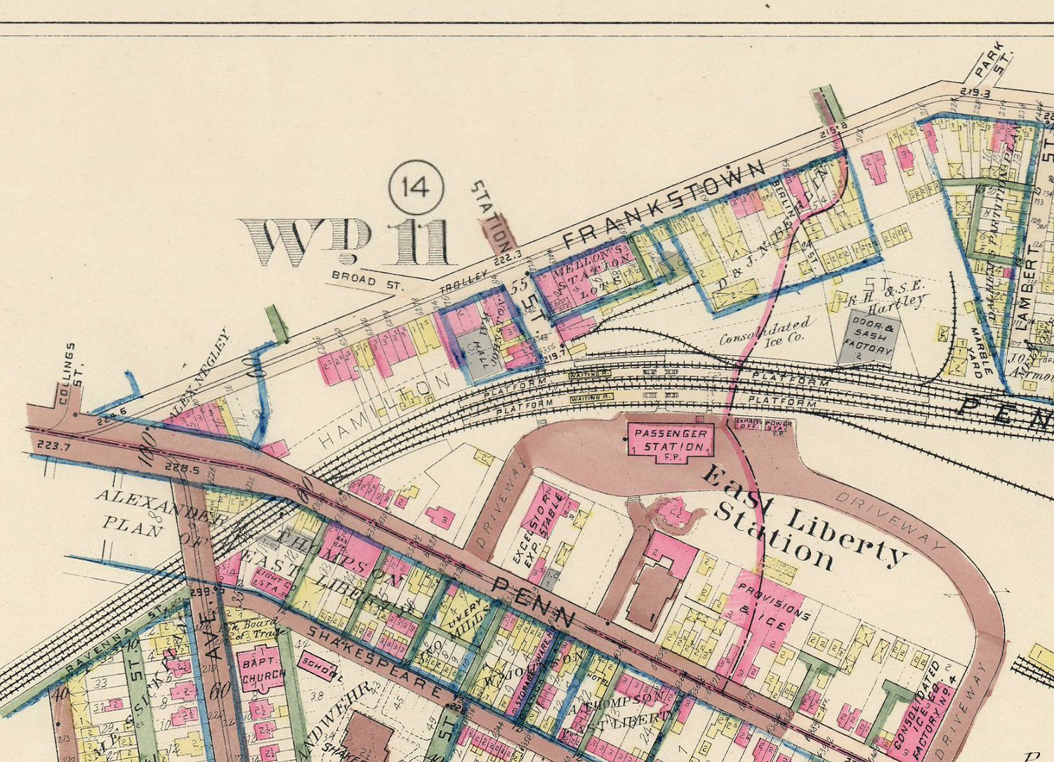 Detail of East Liberty section of Atlas of Greater Pittsburgh, Pennsylvania (Philadelphia: G.M. Hopkins, 1910).